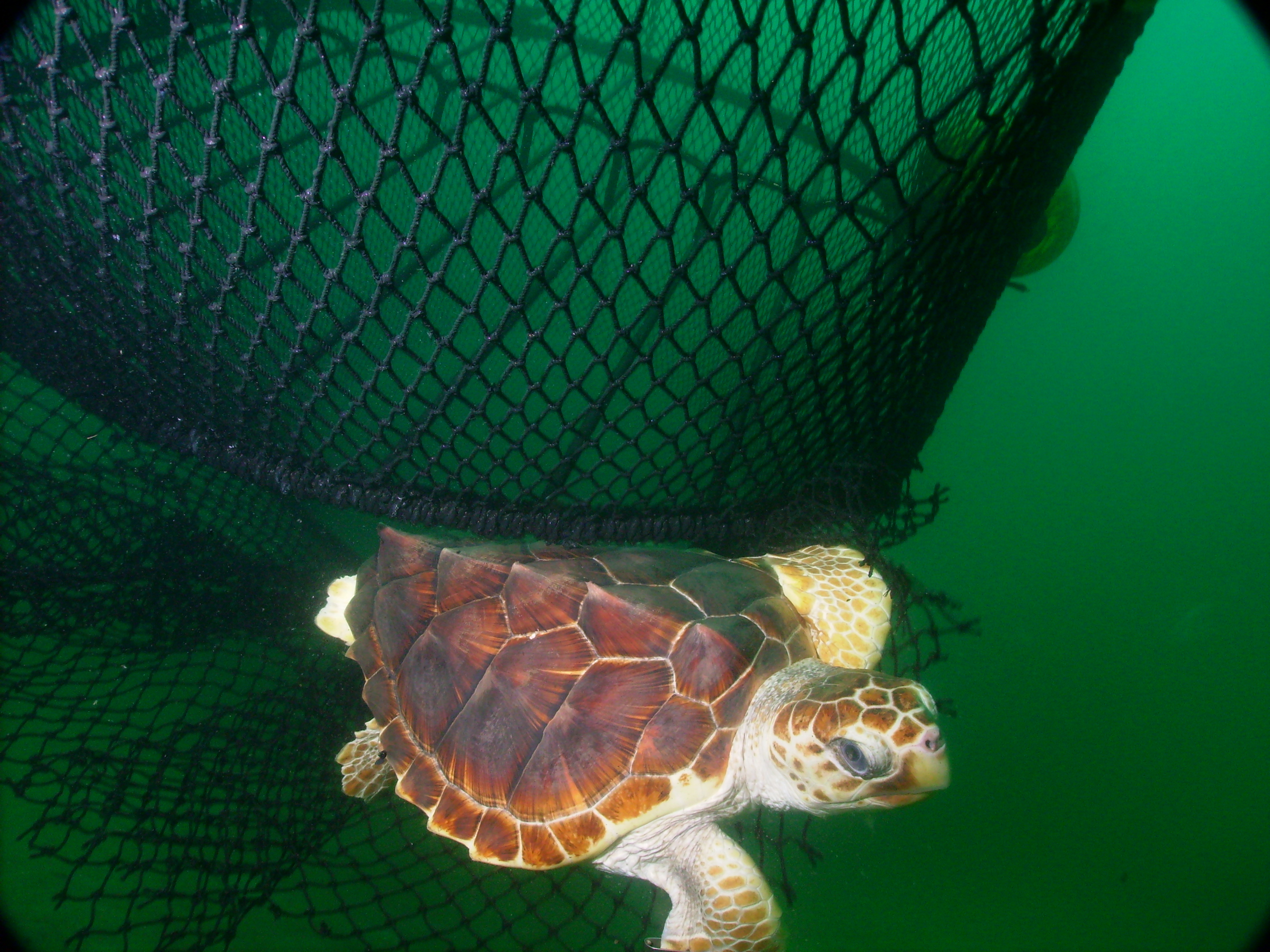 Loggerhead Turtle (Caretta carreta) escaping a net equipped with a turtle excluder device (TED). Credits: U.S. National Oceanic and Atmospheric Administration (NOAA)